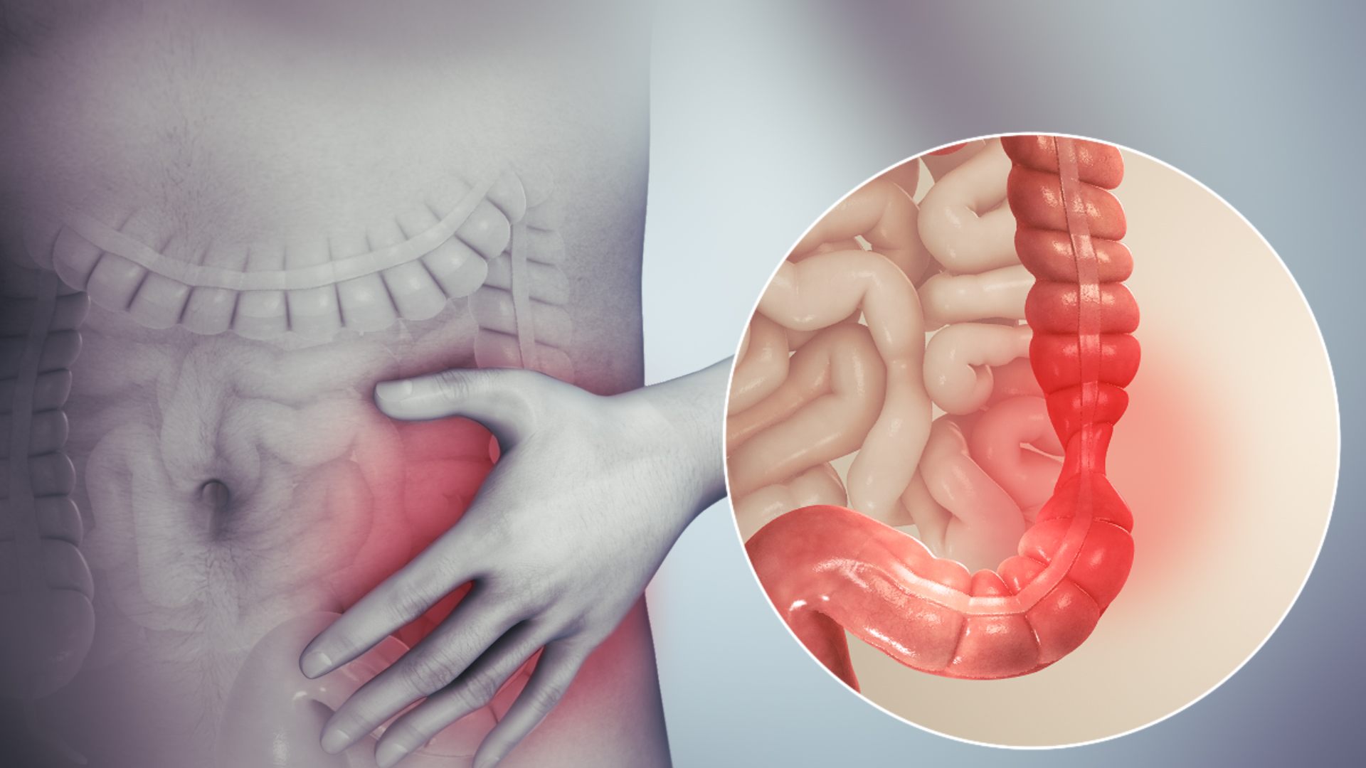 3D medical animation still showing Irritable bowel syndrome and tenesmus in the pip.